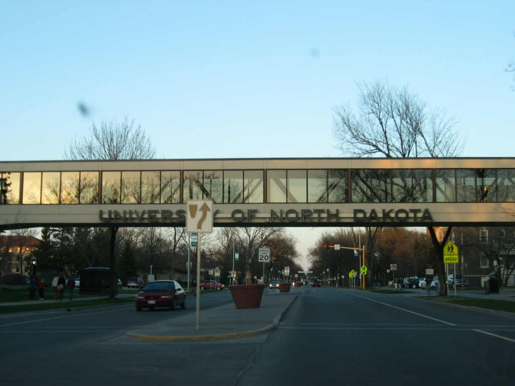 University of North Dakota glass walkway over University Ave.